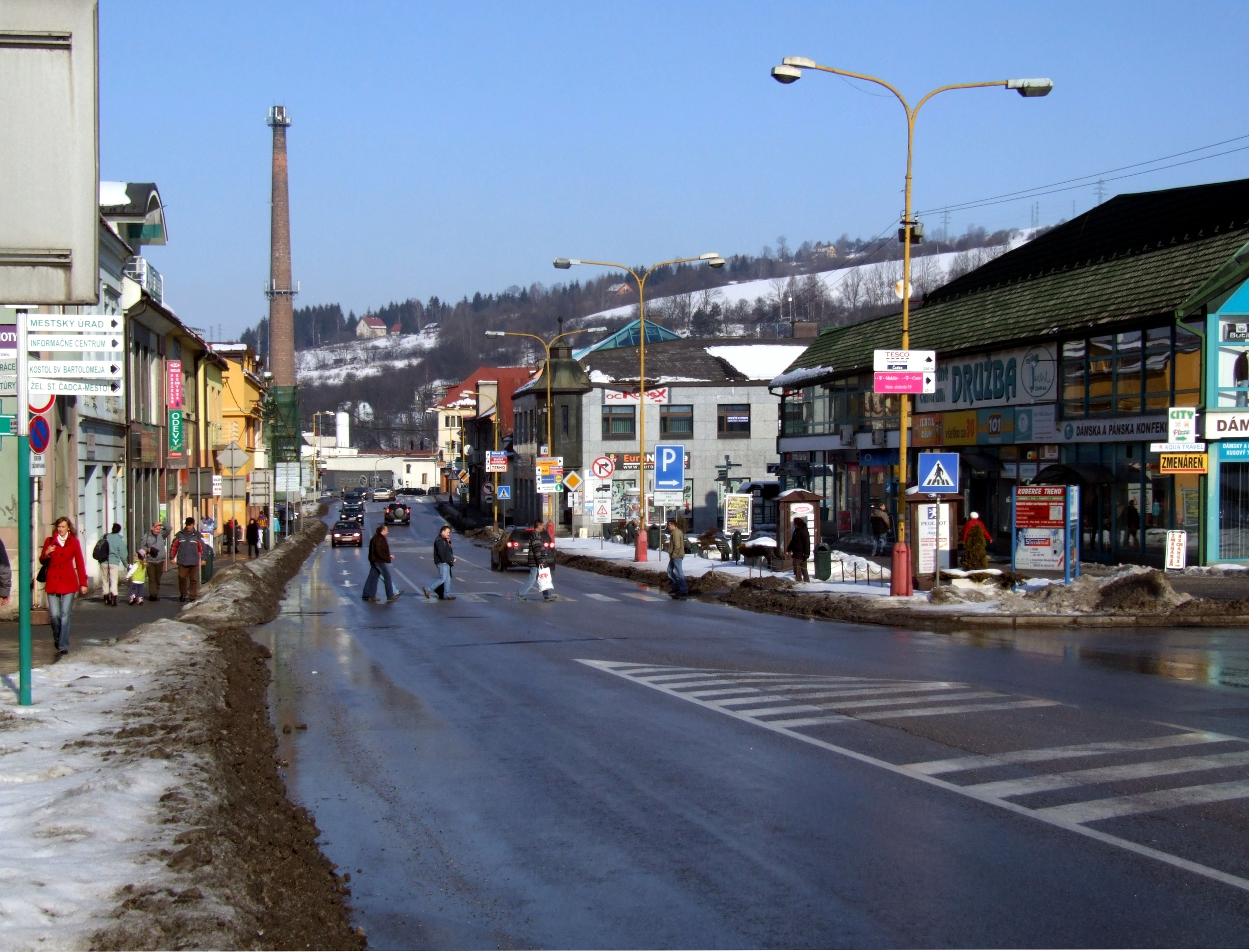 Čadca - main street